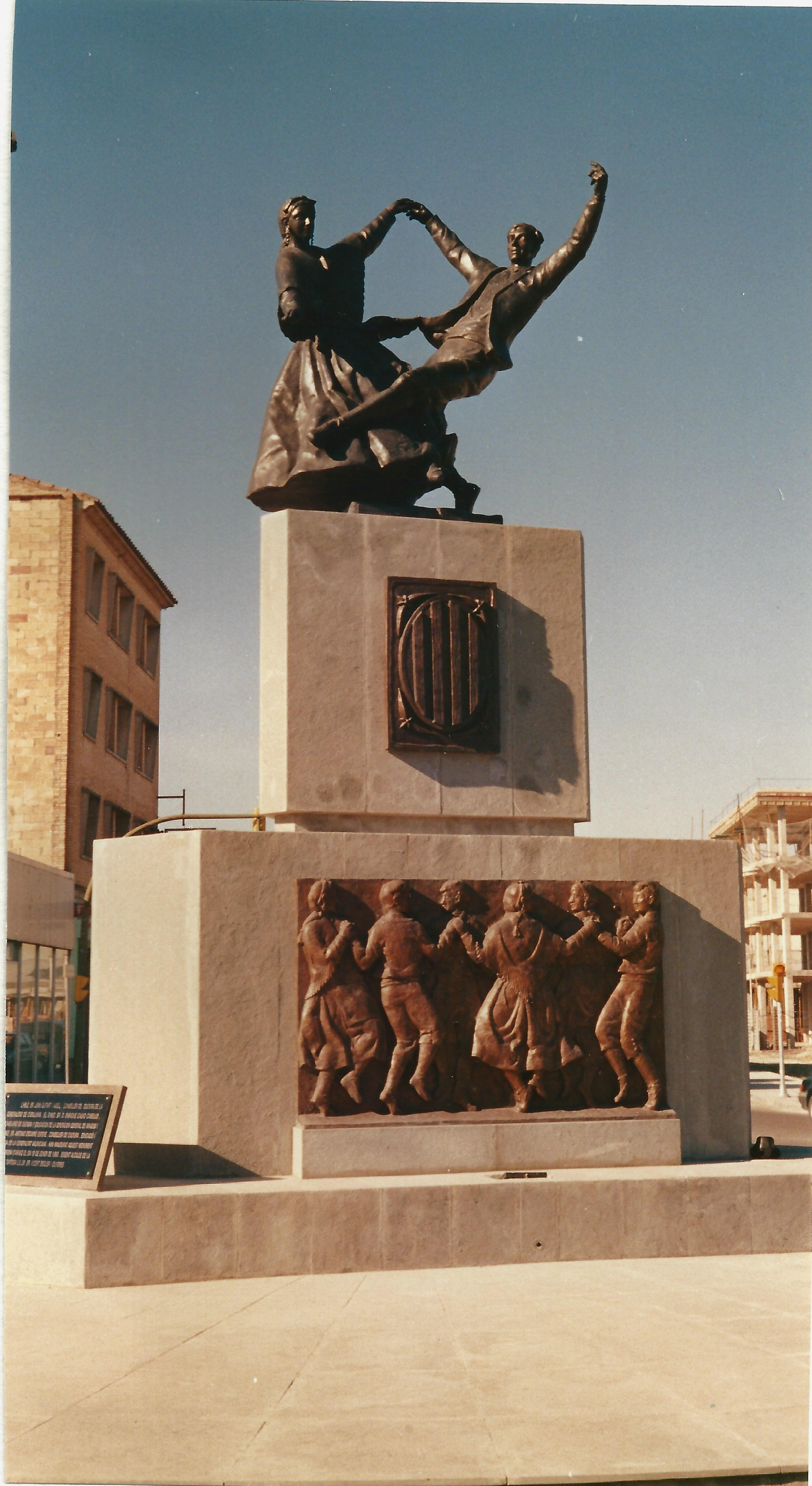 Monument a la Corona d'Aragó. Inaugurat el 19-I-1990 a Ferreries- Tortosa.